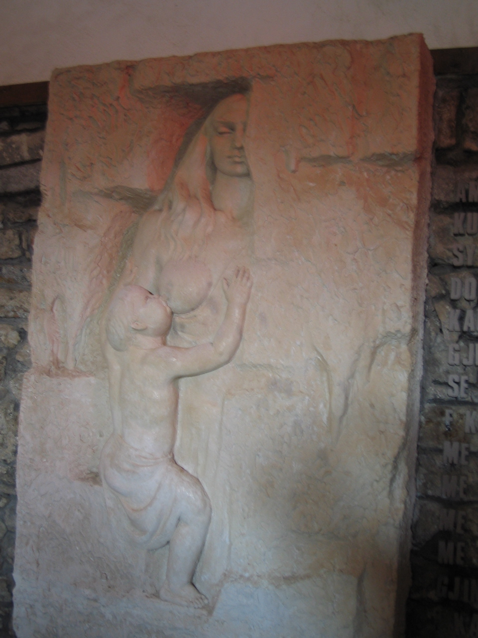 Illustration of the legend of Rozafa